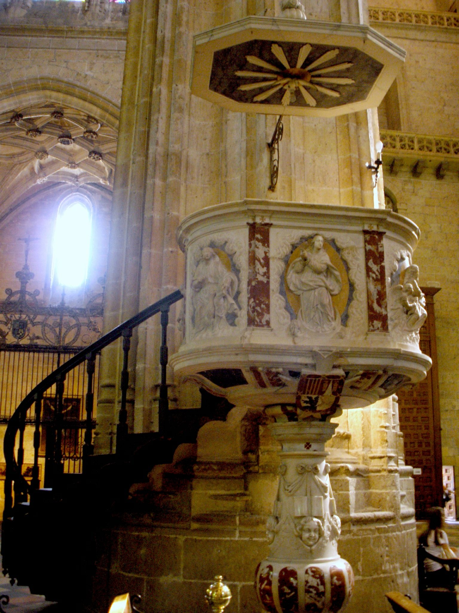 Púlpito en la Catedral de Segovia Procede del antiguo monasterio de San Francisco de Cuéllar (Segovia), panteón de la Casa de Alburquerque, cuyo escudo de armas contiene la pieza.